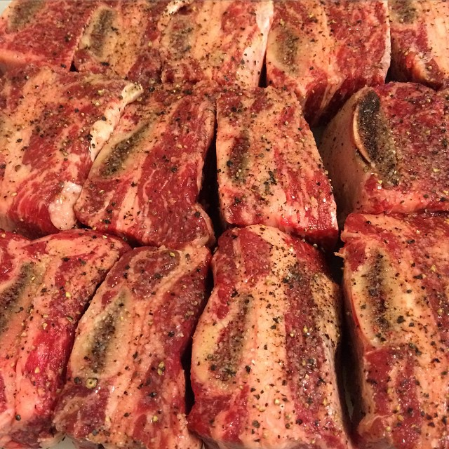 Christmas short rib prep.